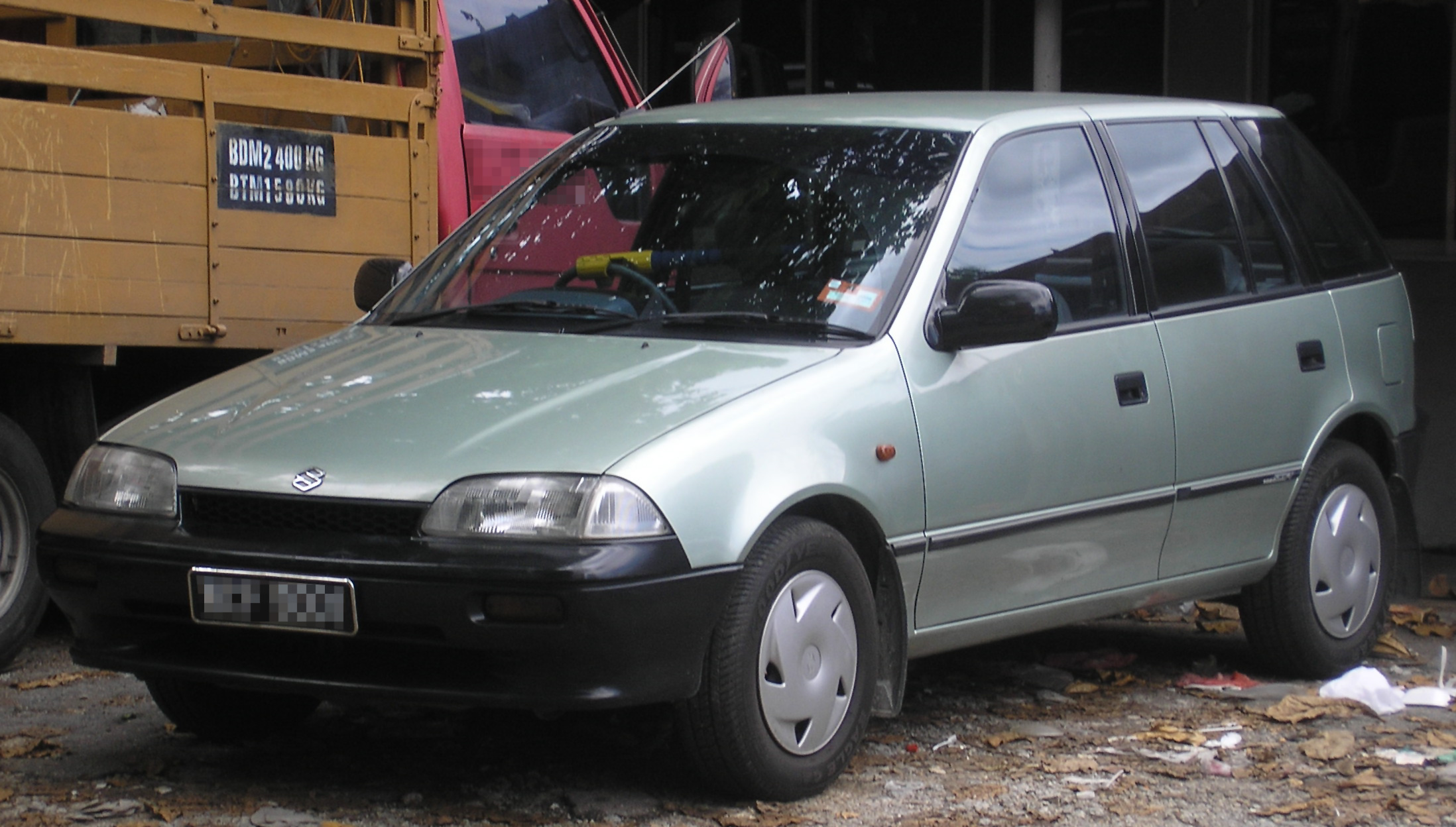 Front quarter view of a second generation Suzuki Swift, in Pudu, Kuala Lumpur, Malaysia.